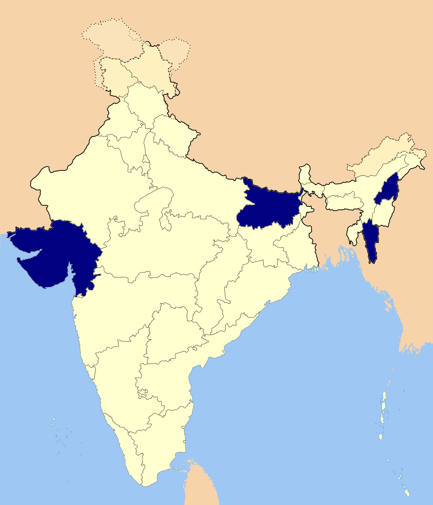 Alcohol prohibition in Indian states and union territories and Uttarkhand village khela.